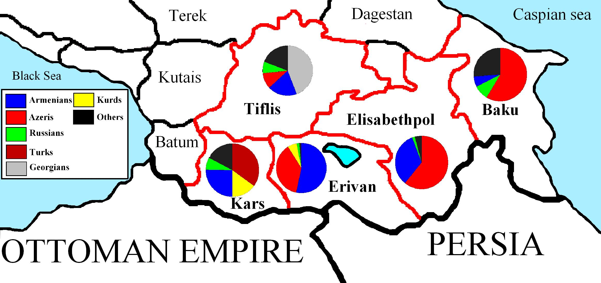 Ethnic population of Transcaucasia according to the Russian census of 1897